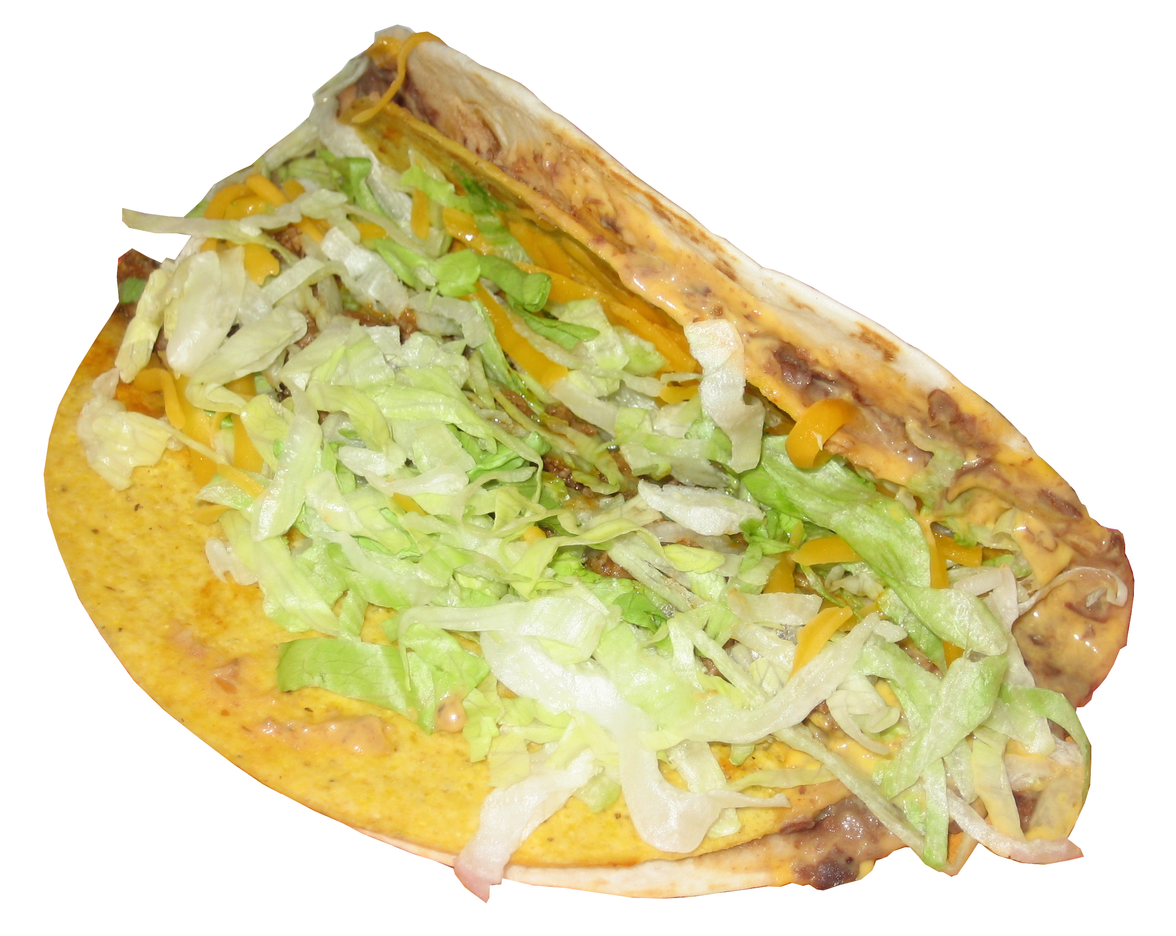 Click here to read a Taco Bell Cheesy Double Decker Taco review